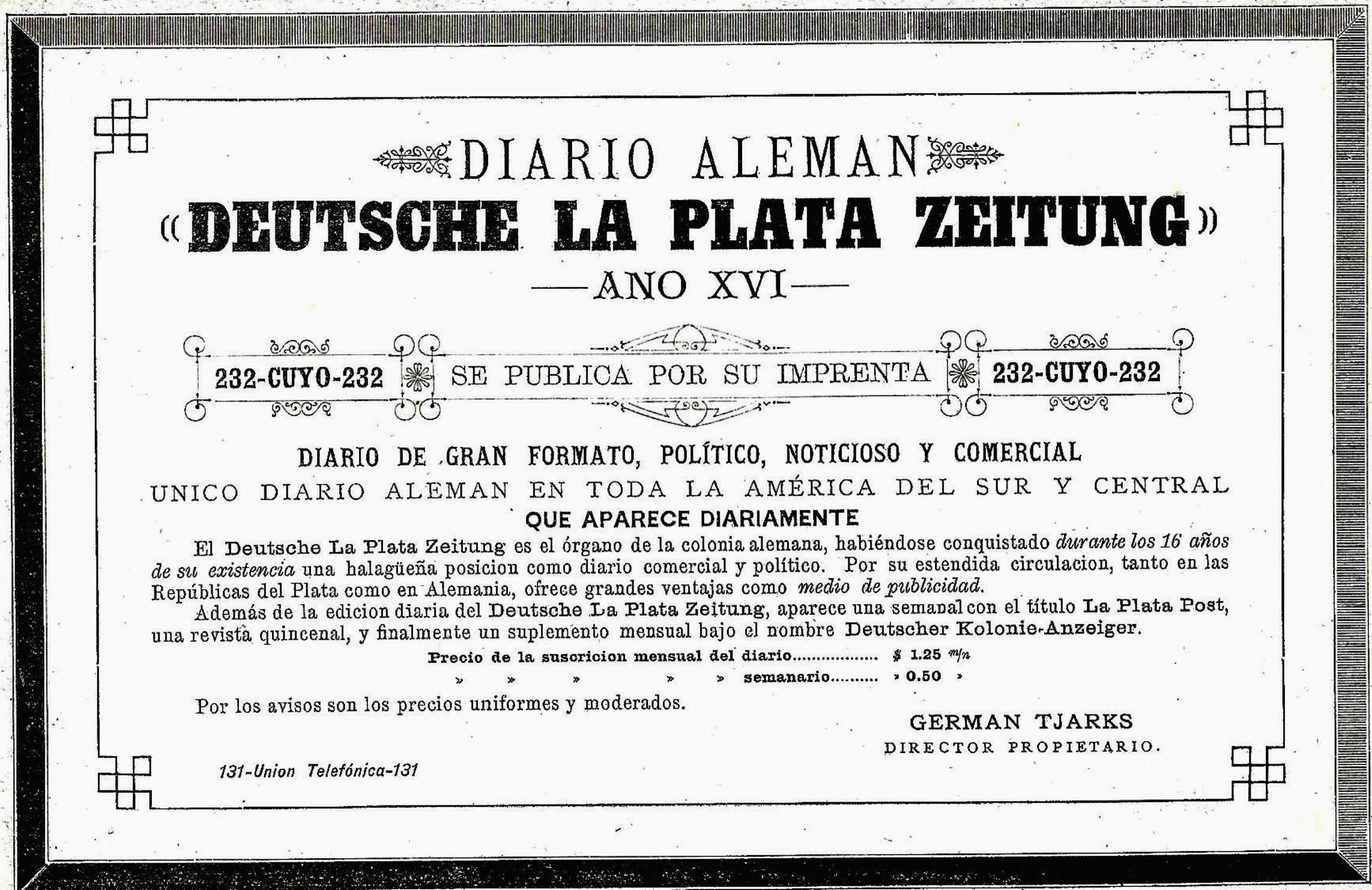 Publicidad DLPZ